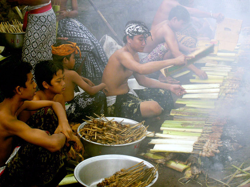 Preparing the feast before the show's begin. From Perang Pandan or Pandan War in Tenganan village, Karangasem, Bali.